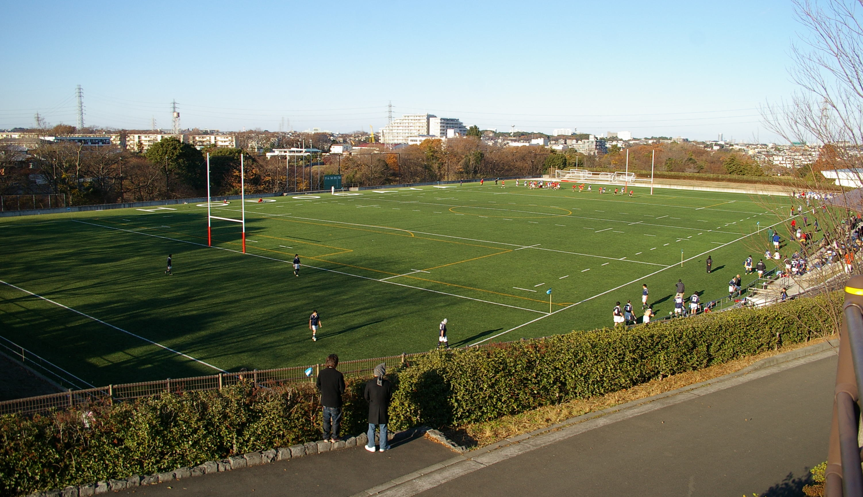 Hodogaya Rugby Studium (Yokohama-Shi Hodogaya-ku Hodogaya Sports Park)